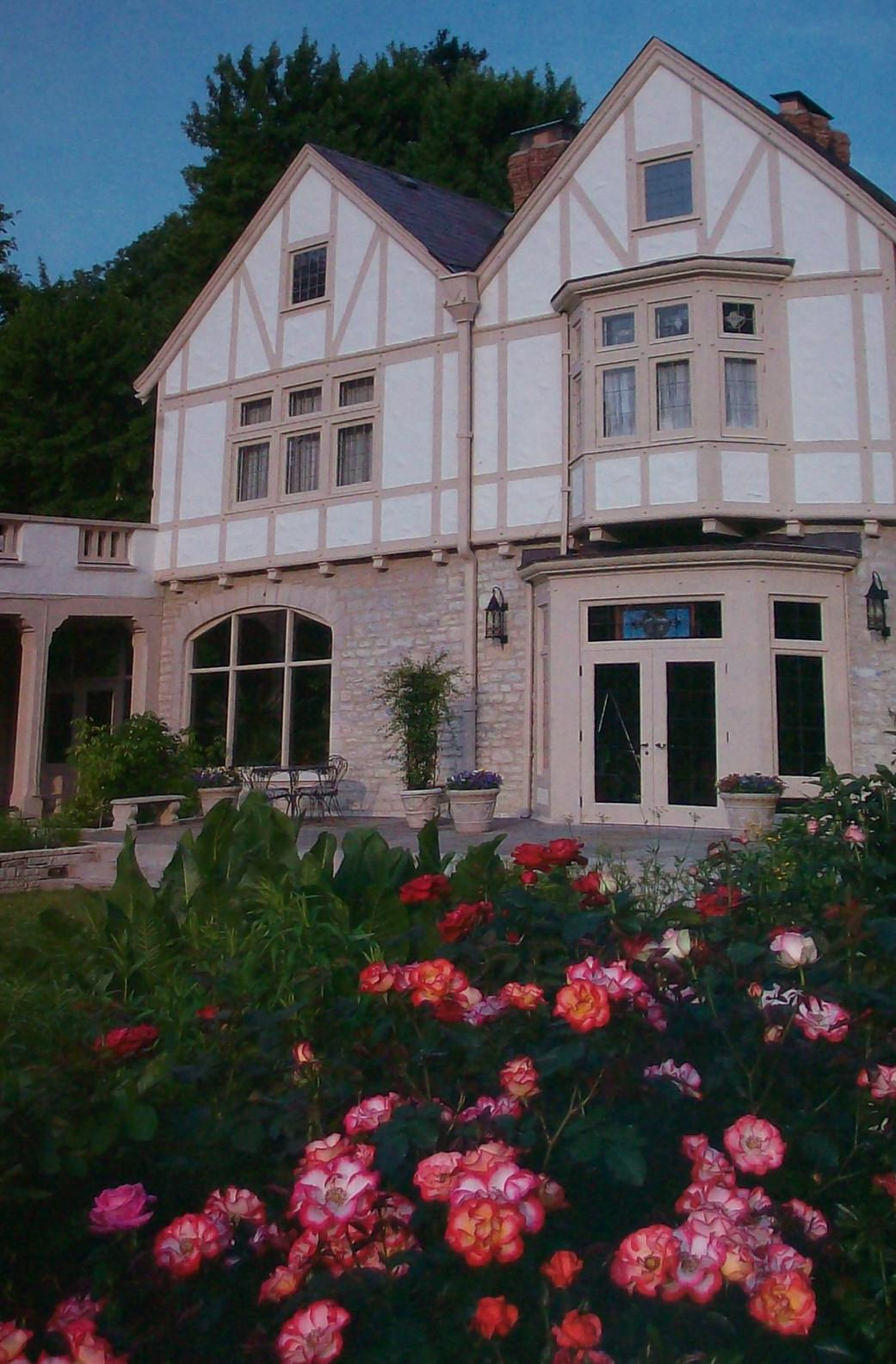 Ohio Governor's Residence viewed from Jeffrey-Carlile Rose Garden